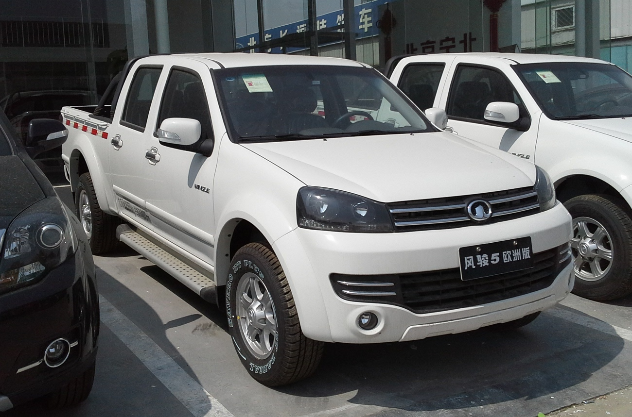 Great Wall Wingle 5 European Edition photographed in Beijing, China.